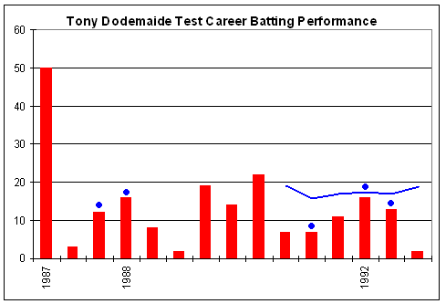 Test batting chart of Tony Dodemaide. Red columns are the runs in the innings. Blue dots indicate not outs. Blue line is average in the last ten innings. Thanks to Raven4x4x for providing the template.